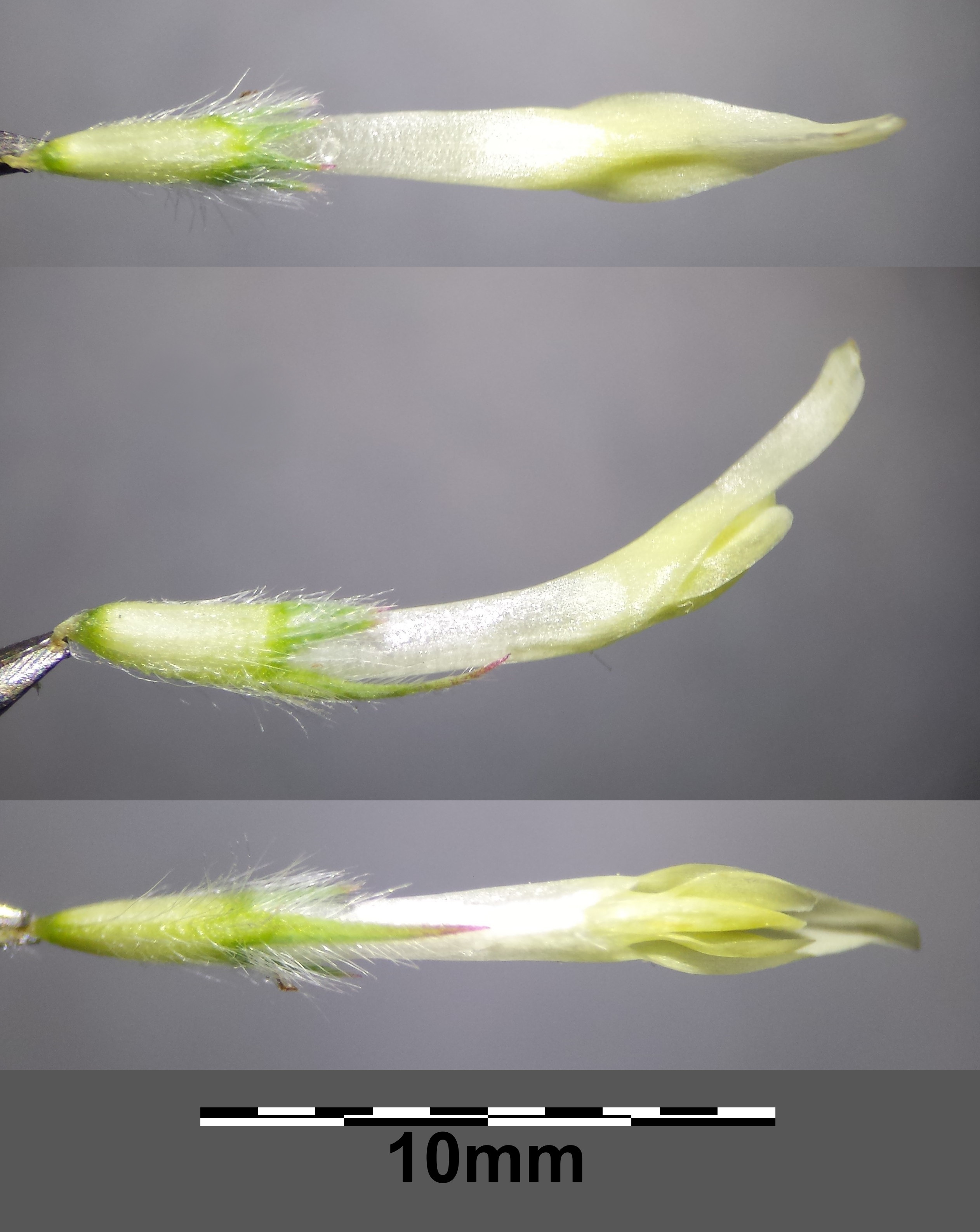 Flower Taxonym: Trifolium ochroleucon ss Fischer et al. EfÖLS 2008 ISBN 978-3-85474-187-9 Location: near Kaltenleutgeben, district Mödling, Lower Austria - ca. 430 m a.s.l. Habitat: meadows